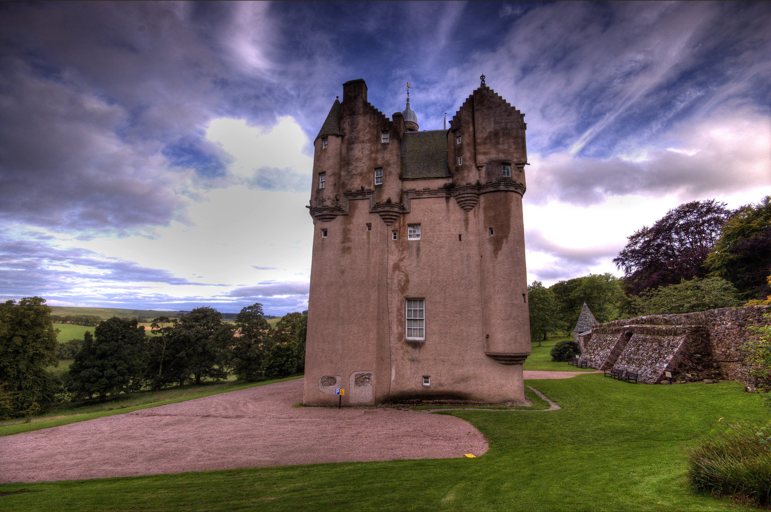 Craigievar Castle, Scotland, by B. A. Watson.